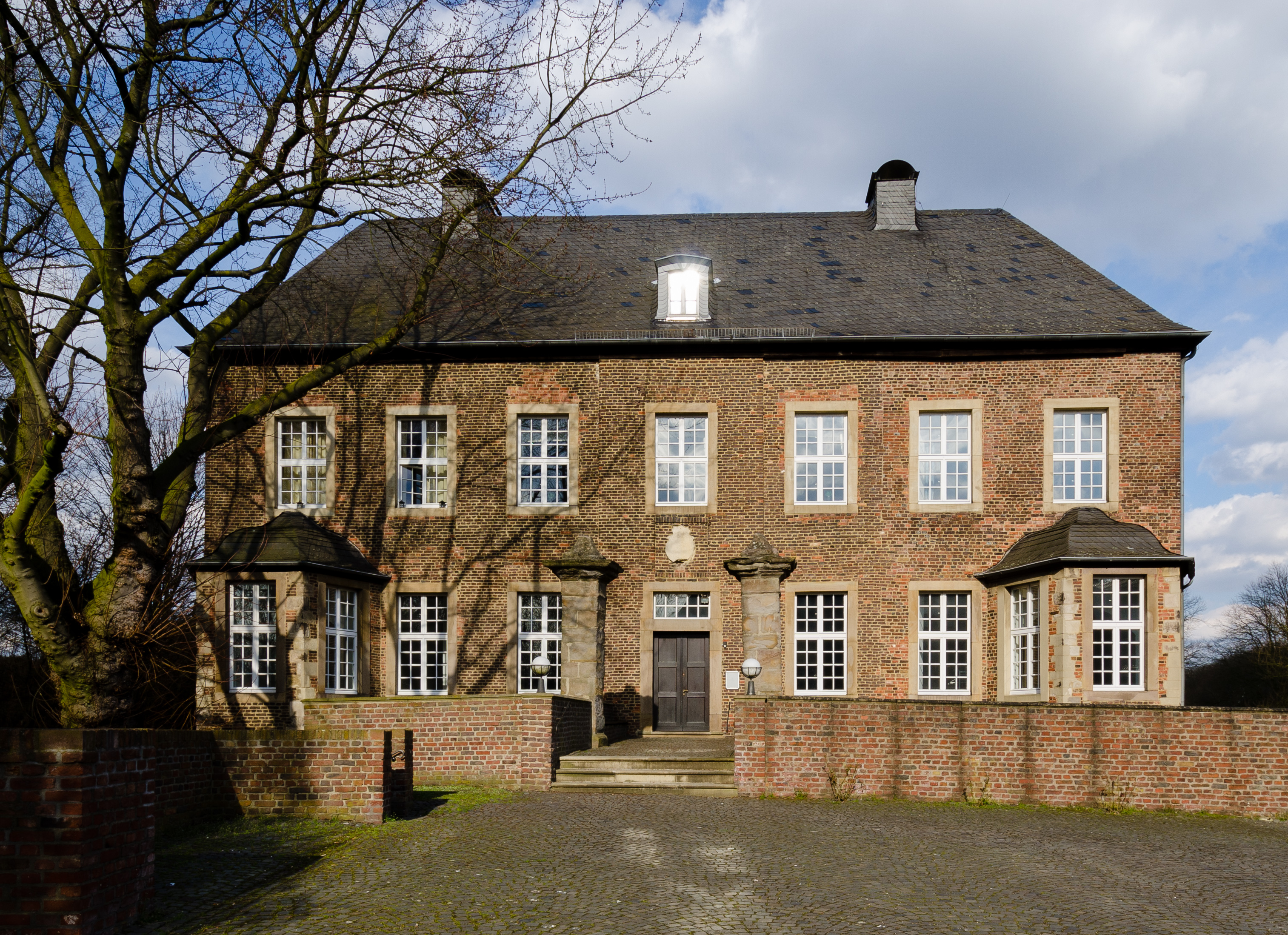 Vondern Castle, main house